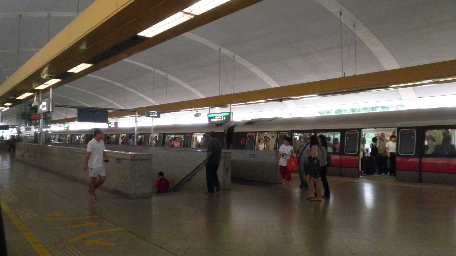 Kallang MRT Station platform with train